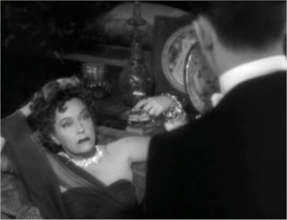 Screenshot taken by me (Icea) from the trailer to the movie Sunset Blvd.